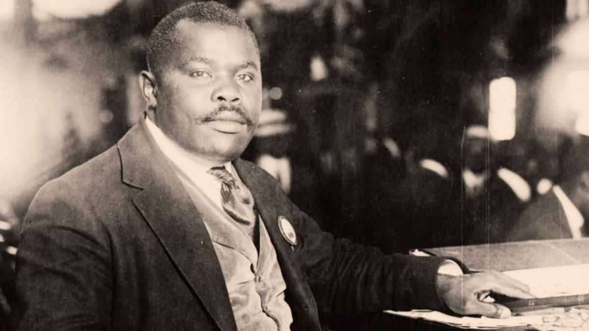 marcus garvi